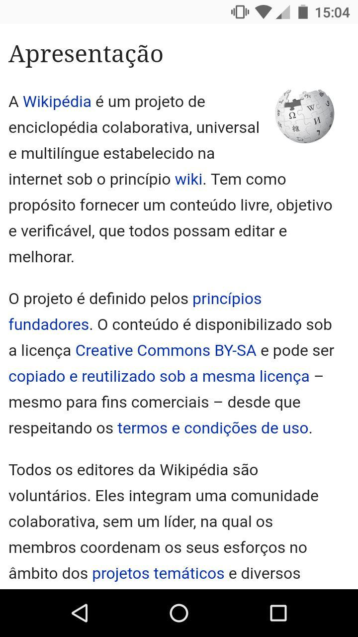 The Main page of the Portuguese Wikipedia on Android, using the Samsung browser (which is based on Google Chrome)